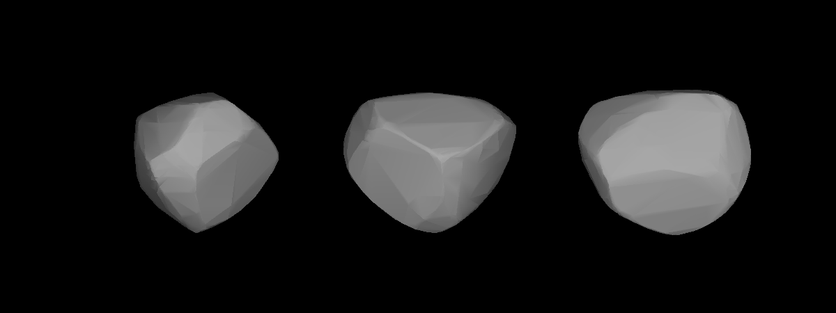 Three-dimensional model of 98 Ianthe created based on light-curve.